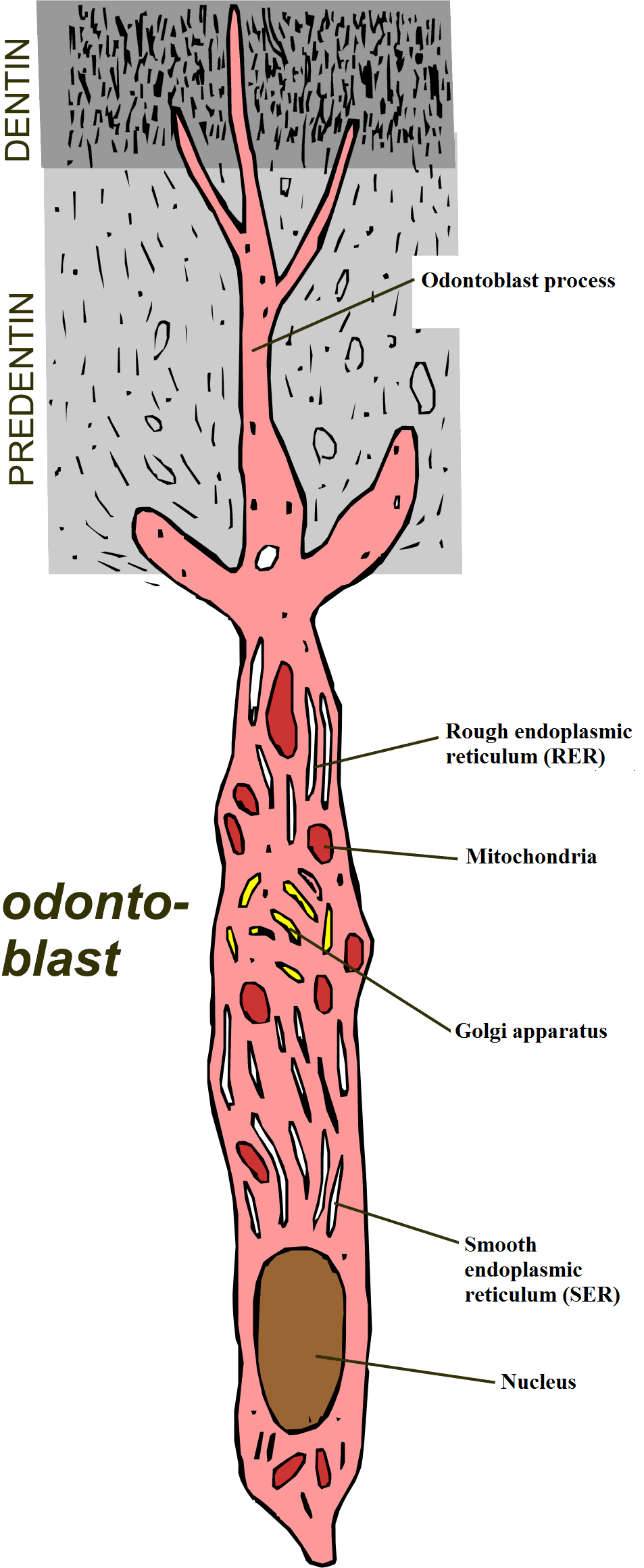 Diagram of odontoblast cell. Annotations translated from Spanish from version File:Odontoblast miguelferig.png